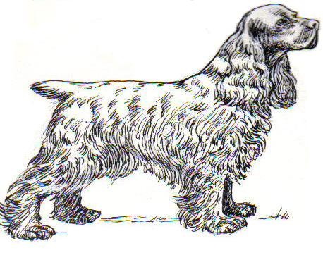 line art drawing of a cocker spaniel.